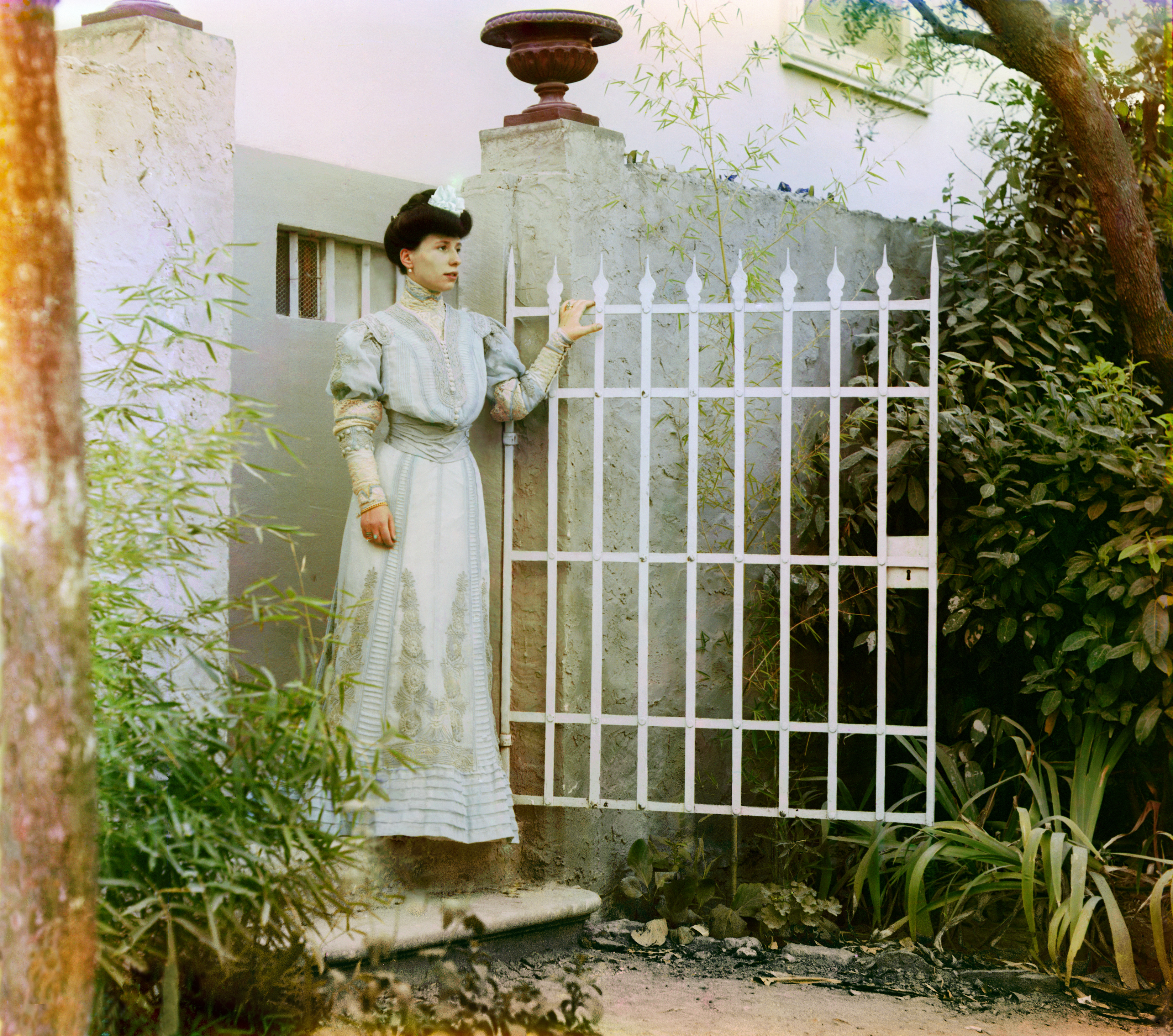 Woman in formal dress, posed, standing near gate.